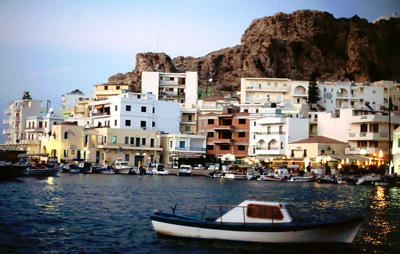 Harbour of the City of Pigadia, Karpathos, Greece